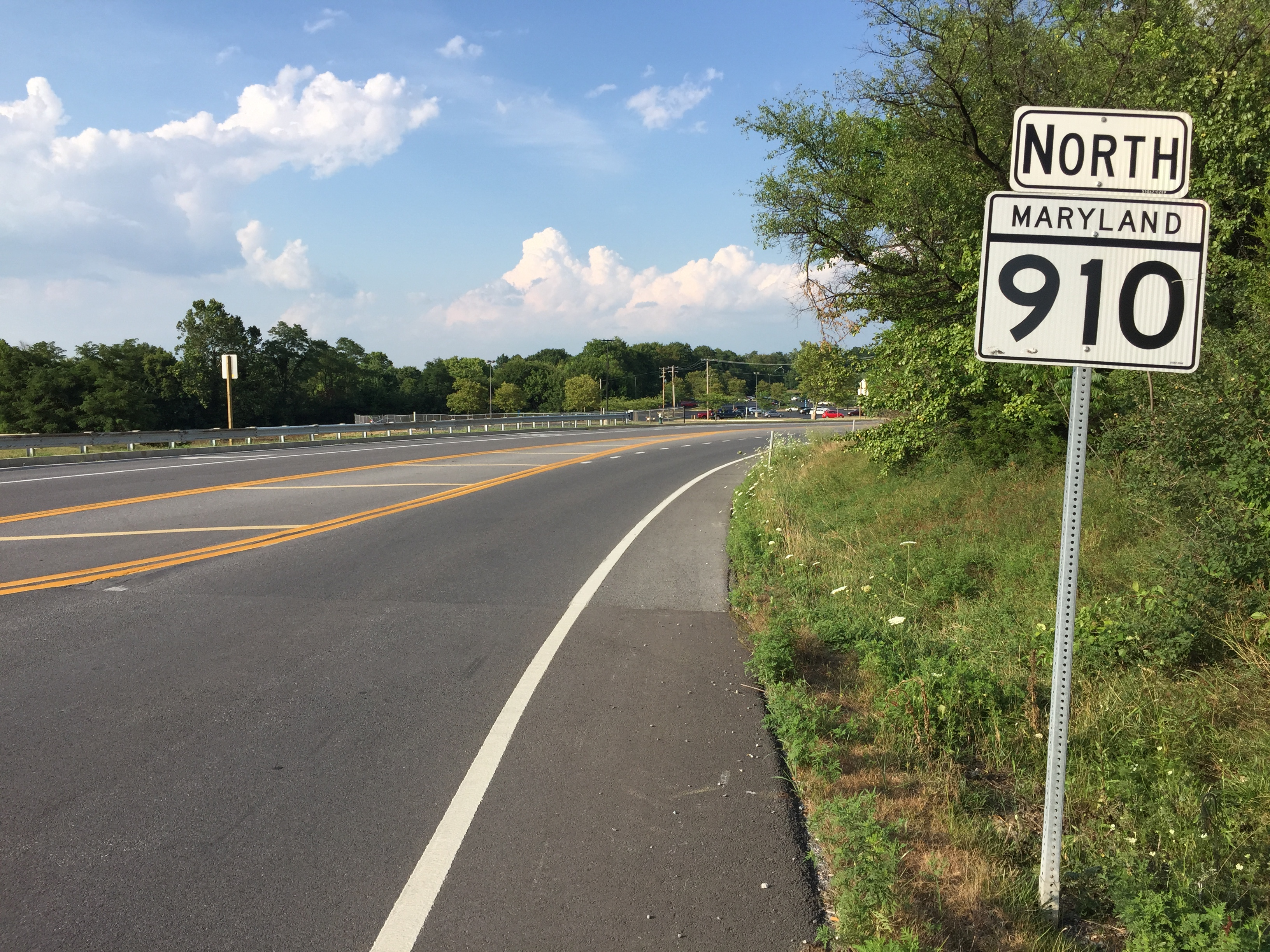 View north along Maryland State Route 910 (Western Maryland Parkway) just north of Maryland State Route 144 (Washington Street) in Cedar Lawn, Washington County, Maryland